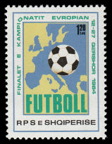 A 1984 Albanian stamp commemorating UEFA Euro 1984.